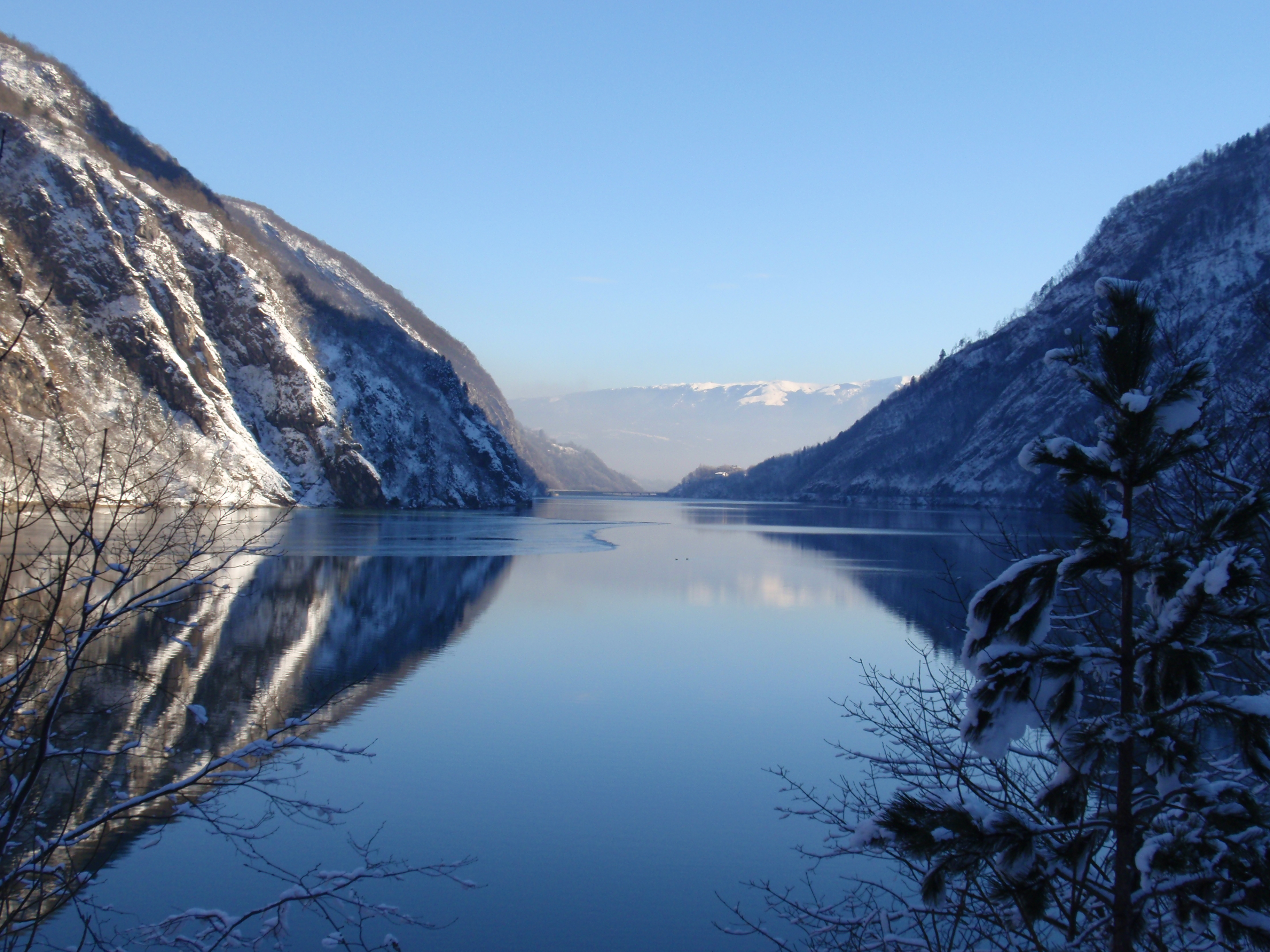 Winter view of Lago del Mis (Lake Mis), looking west-northwest from a dam at the eastern end of the lake.